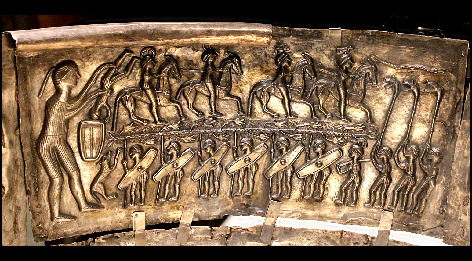 Gundestrup cauldron, interior plate 2. Copy by galvanoplasty, museum of Bibracte, exhibition at the Cité des Sciences, Paris ("Les Gaulois, une expo renversante").